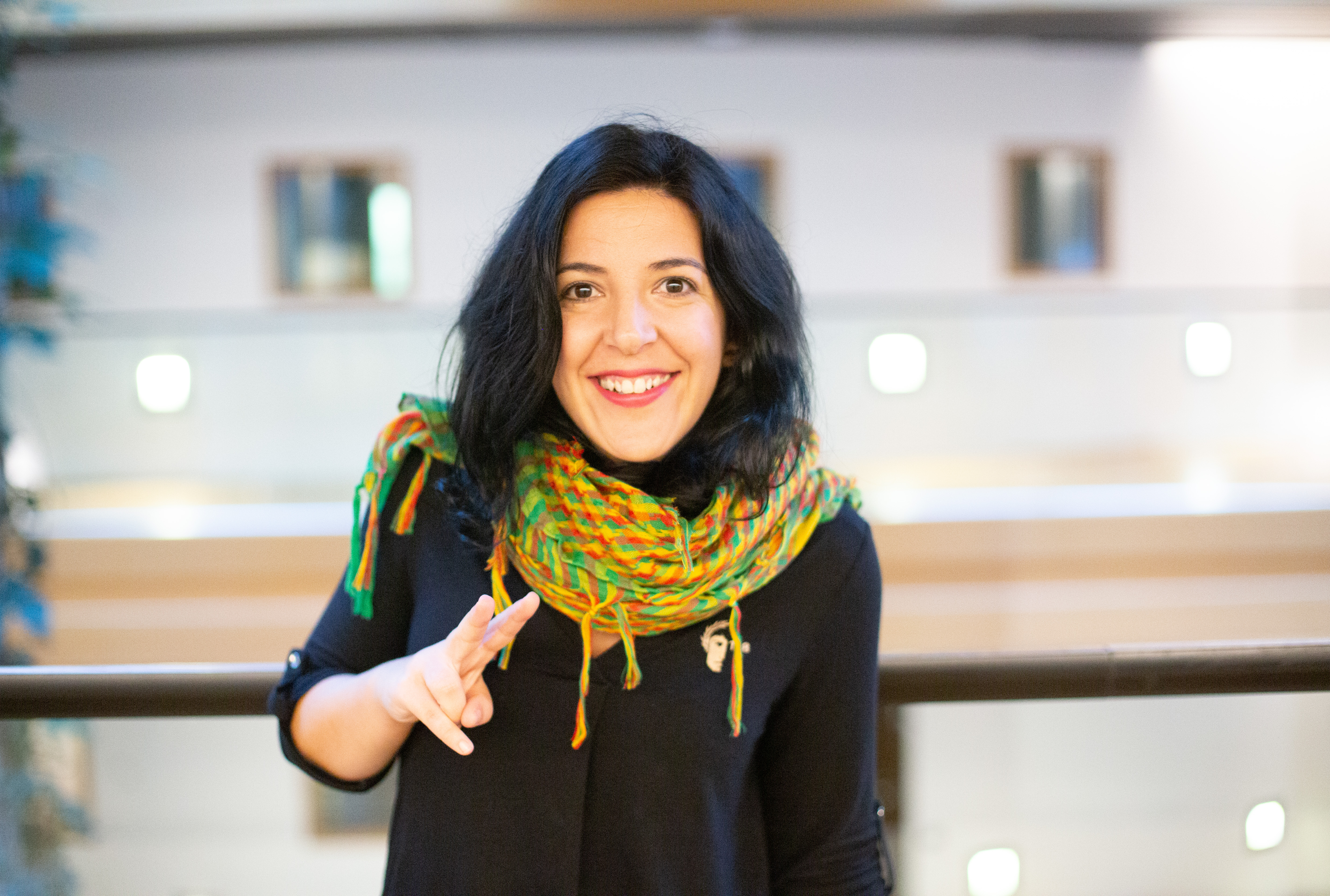 This week in #Eplenary our MEPs showed their solidarity with the Kurdish people #Rise4Rojava